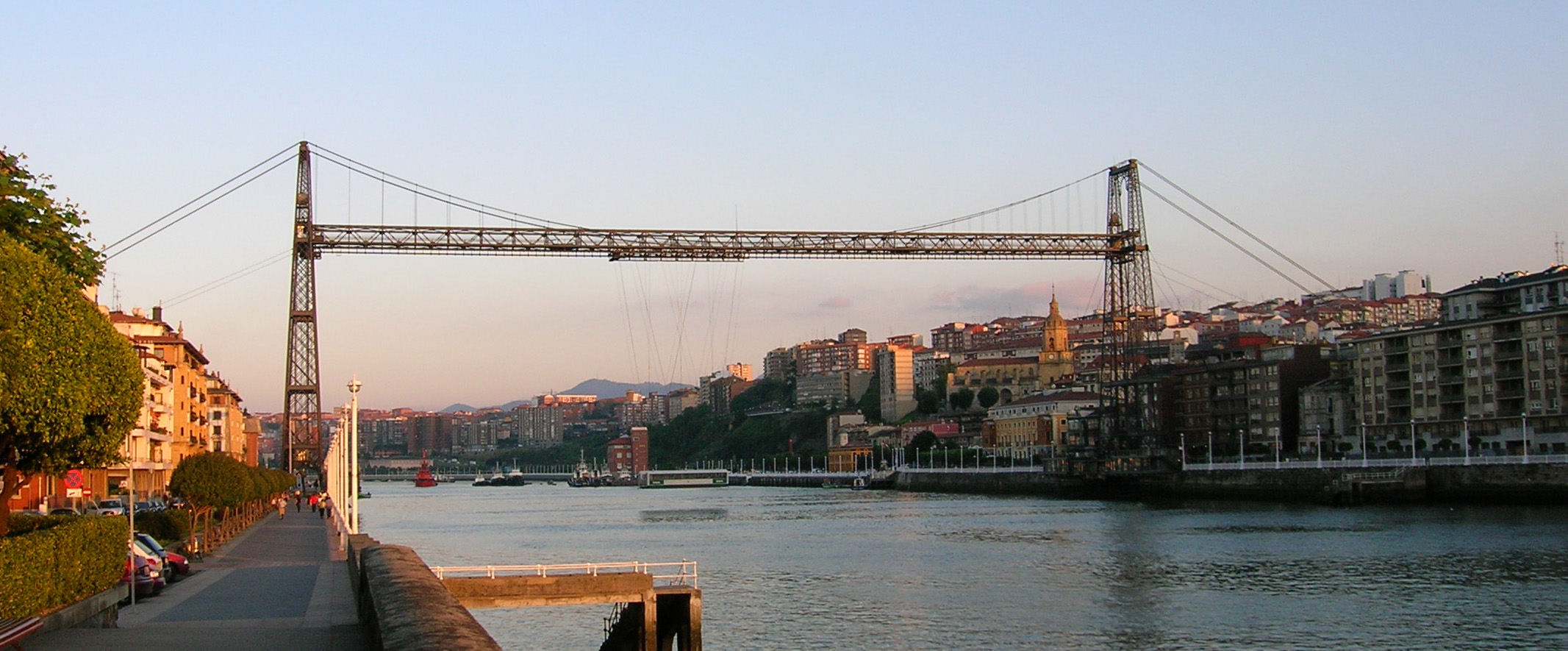 Bizkaia Zubia (Biscay Bridge) Transporter Bridge between Portugalete a Las Arenas - Areeta. The upper horizontal span is a footbridge that can be accessed through lifts (elevators).